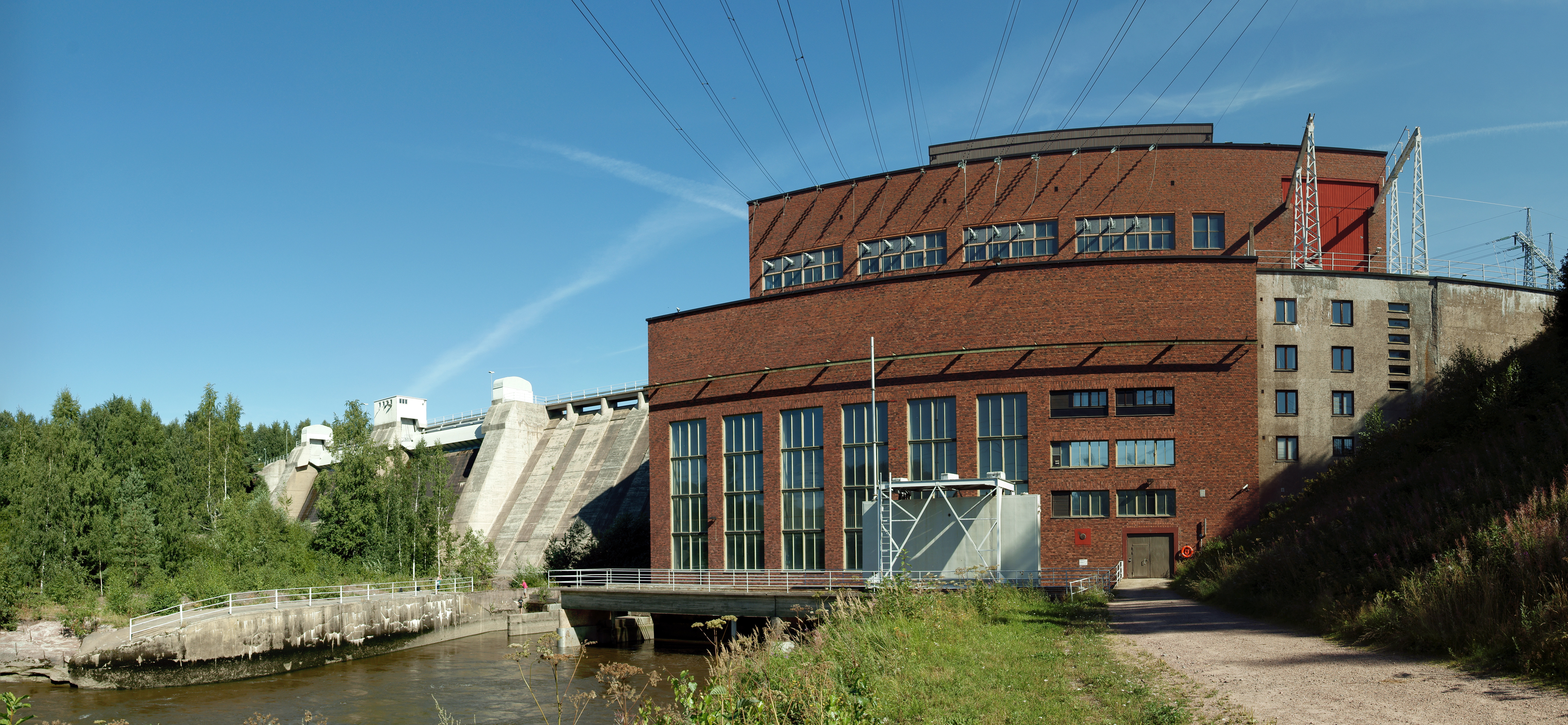 Hydroelectric plant of Harjavalta.